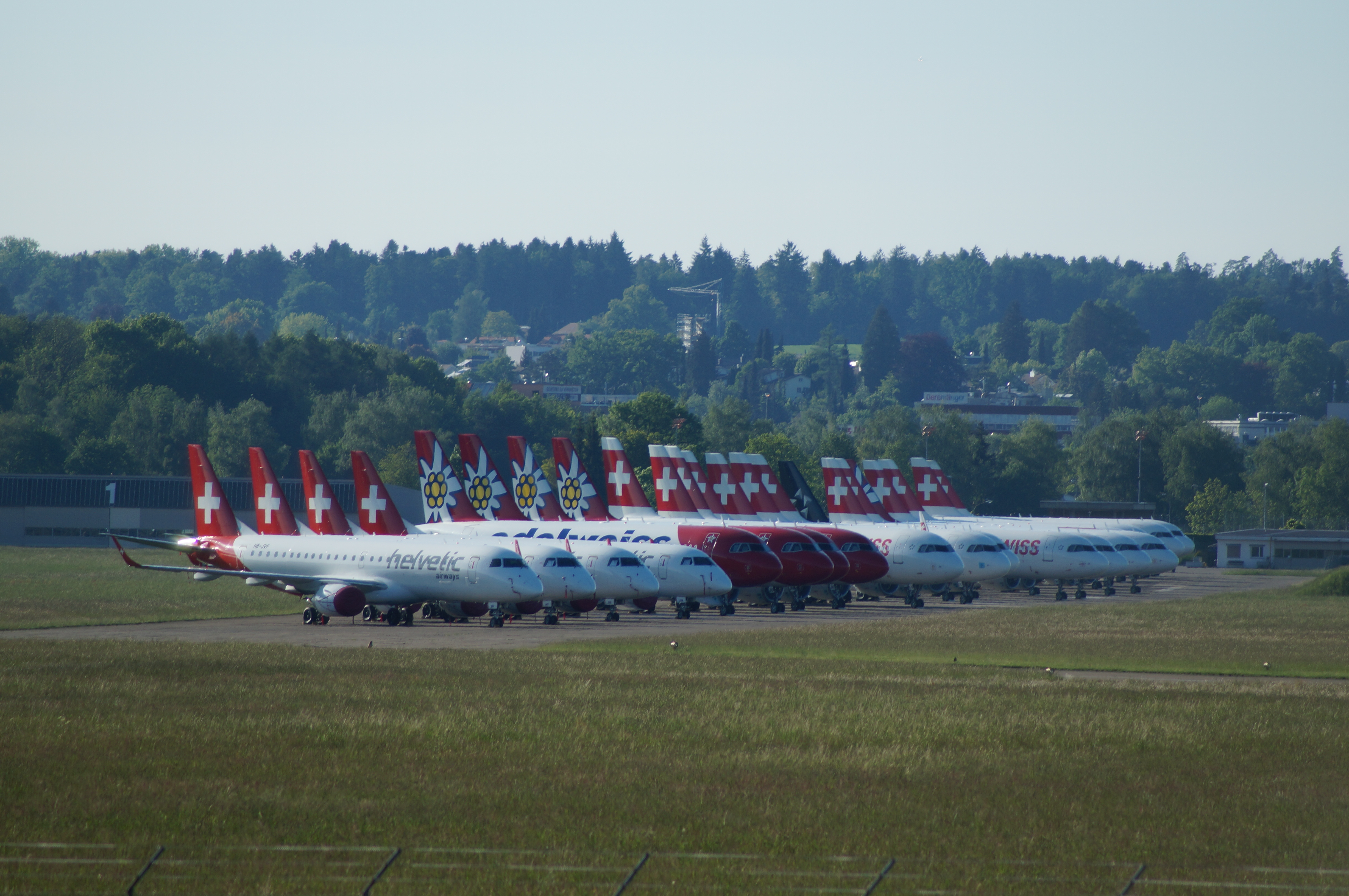 Parked airplanes at Dübendorf Airfield during the Corona virus crisis in May 2020